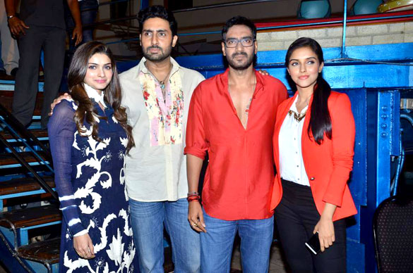 'Bol Bachchan' team on the sets of Taarak Mehta Ka Ooltah Chashmah Prachi Desai, Abhishek Bachchan, Ajay Devgn, Asin